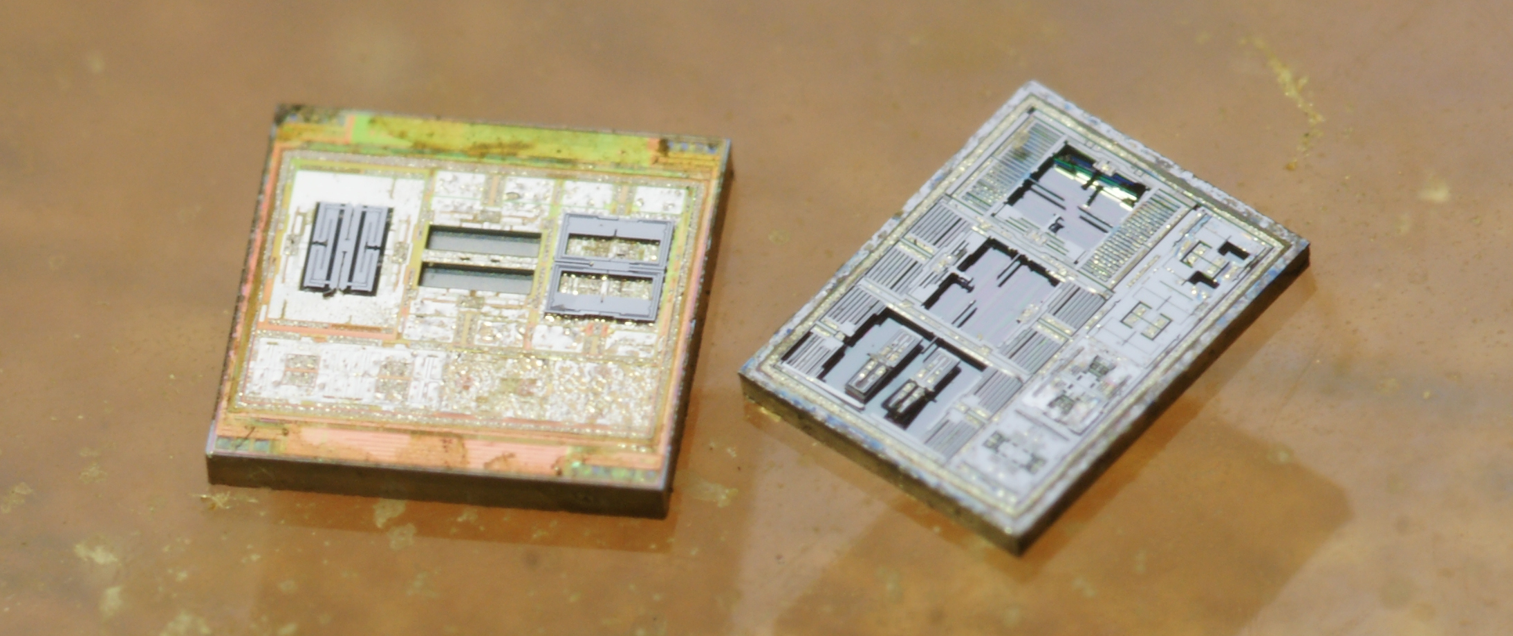 The Invensense MPU6050 is an integrated gyroscope and accelerometer with 16-bit readings. It contains 2 dies which are soldered/welded face-to-face in multiple places.